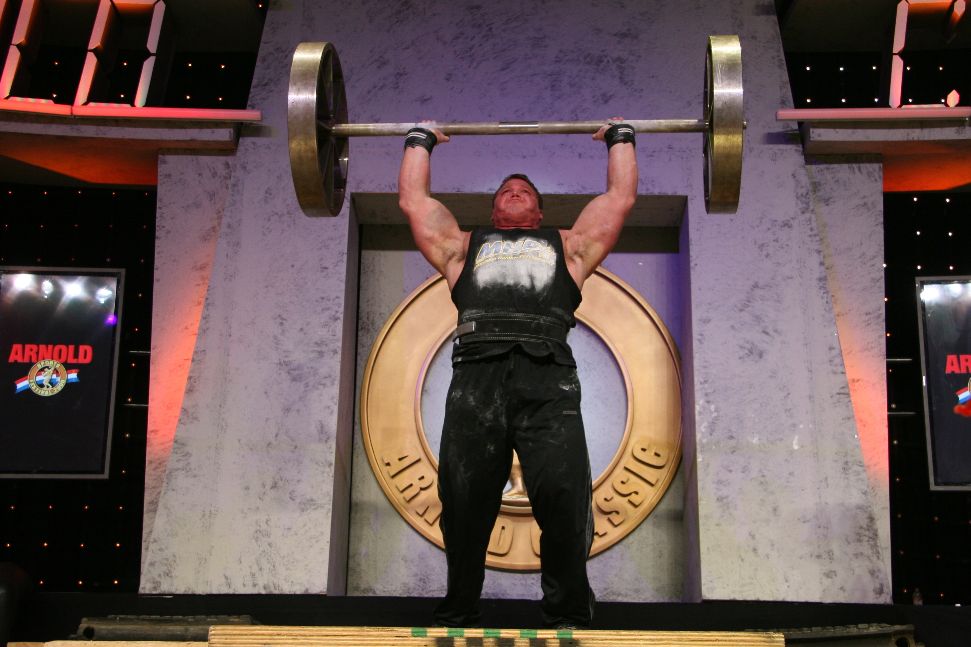 Strongmen event: 166 kg (366 lbs) Axle Lift (Apollon's Wheels).